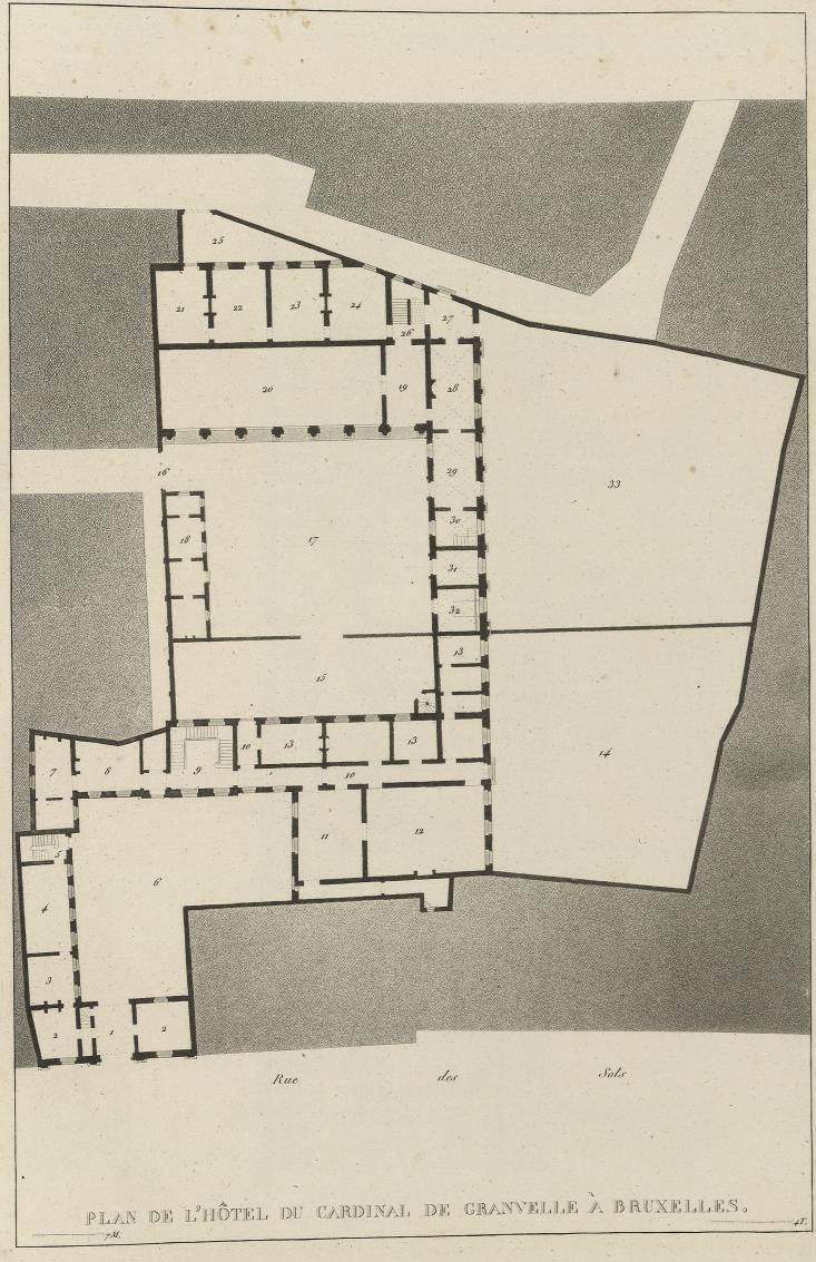 Pierre-Jacques Goetghebuer (1788-1866) became professor of architecture in Ghent, after his studies for architectural drawing at the local art academy. From 1817 he started working on a publication with images of the most remarkable buildings from the newly created United Kingdom of the Netherlands. This book would include both old and contemporary, neoclassicist buildings. Most of the 120 plates depict buildings from the Southern Netherlands, especially Brussels and Ghent. Goetghebuer executed the engravings based upon his own sketches or designs by the architects themselves. Other artists finished the engravings in aquatint. Goetghebuer published this collection of engravings in 1827 with publisher André Benoît II Steven, and he dedicated them to King William I. Many buildings in this book have since disappeared, hence its significant historical importance. Also published in Dutch, with the title Verzameling der merkwaardigste gebouwen in het Koningrijk der Nederlanden.